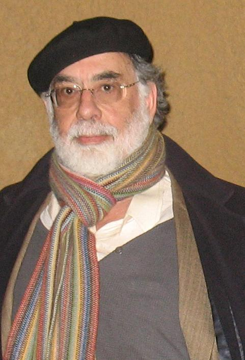 Picture of Francis Ford Coppola taken in 2007.